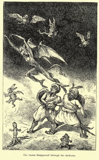 Illustration by Ernest Griset (1844-1907) from Richard Francis Burton's Vikram and the Vampire (1870)